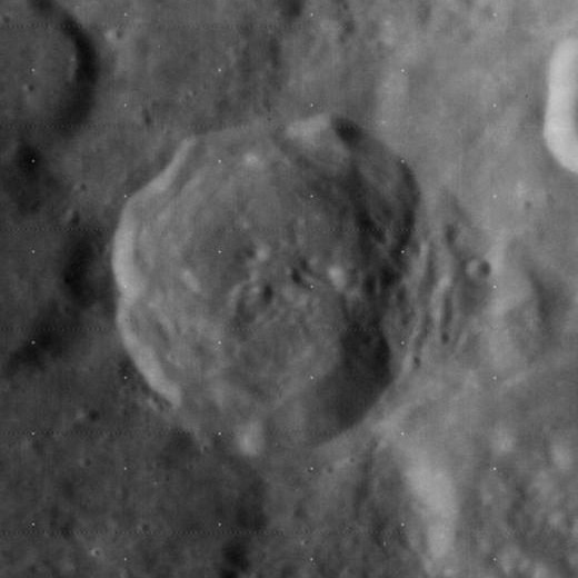 Tralles crater, on the moon. Brightness and contrast adjusted from original.